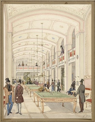 “Löwesche Coffee House“ in Vienna at Landstraße corner Beatrixgasse, interior view, 1842, water painting, 21 x 16 cm